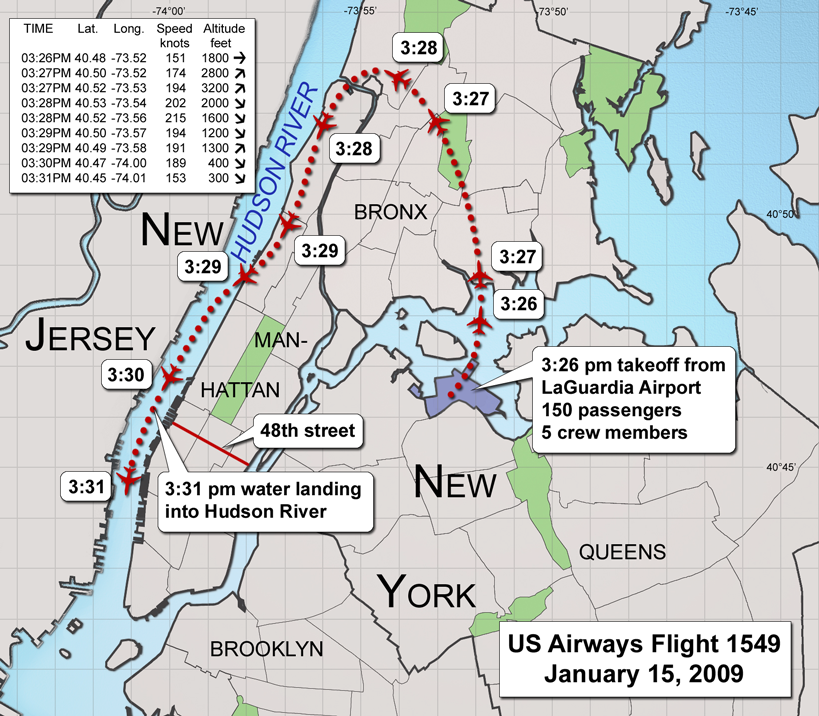 US Airways Flight 1549, January 15, 2009